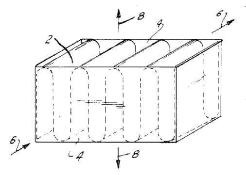 Air-motion transformer sketch.